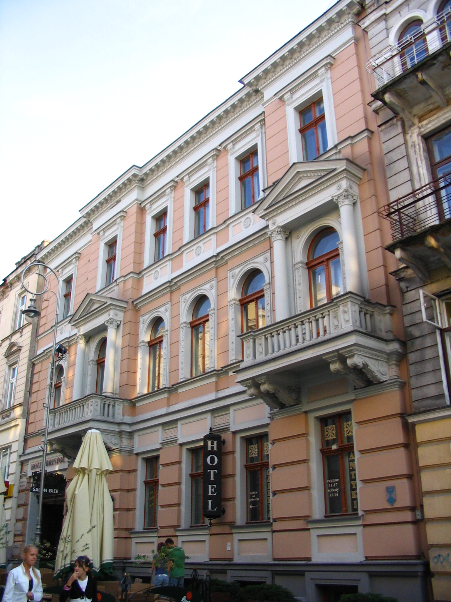 "Bristol" Hotel in Kielce 375 z 30.03.1976.